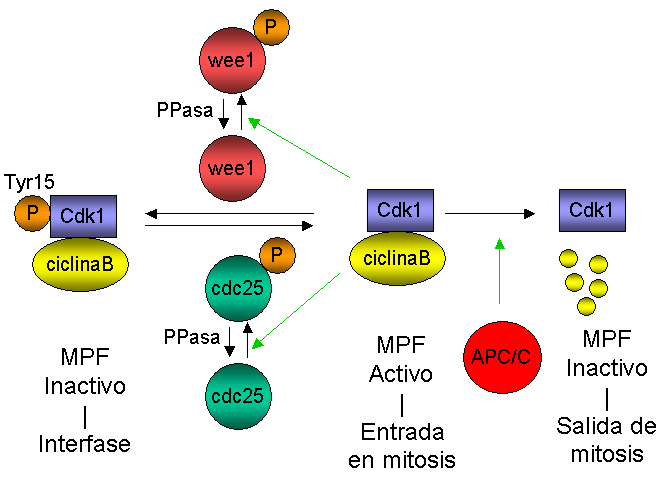 Diagram showing the regulation of MPF activity in the cell cycle progression.